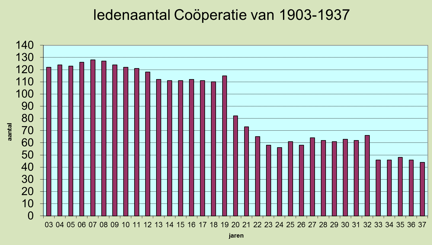 Number of members per annum